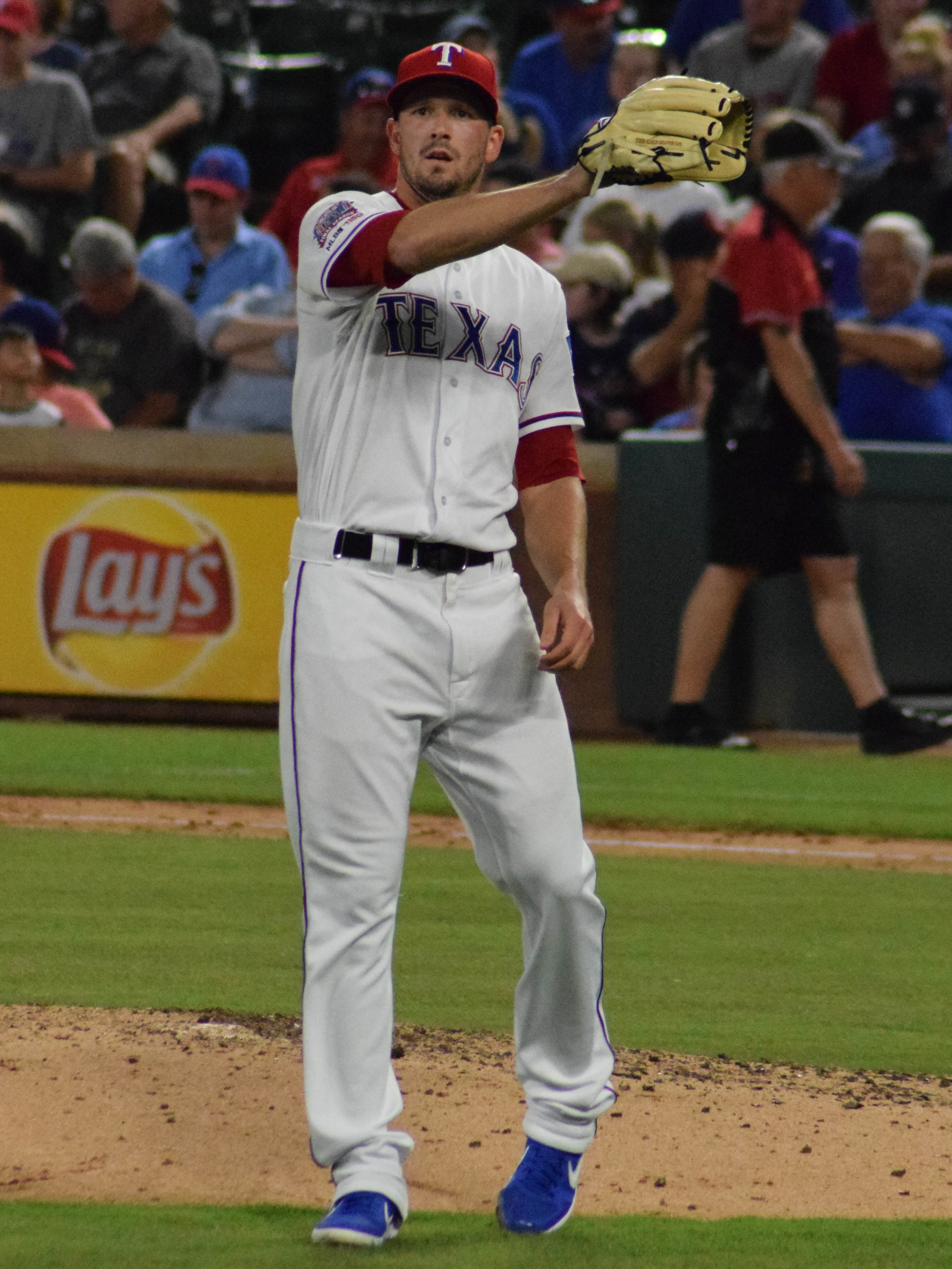 Drew Smyly with the Texas Rangers during a 2019 game at Globe Life Park in Arlington